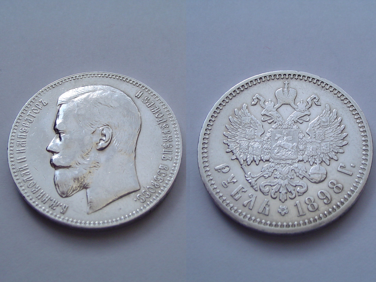 Russian 1 ruble coin, 1898